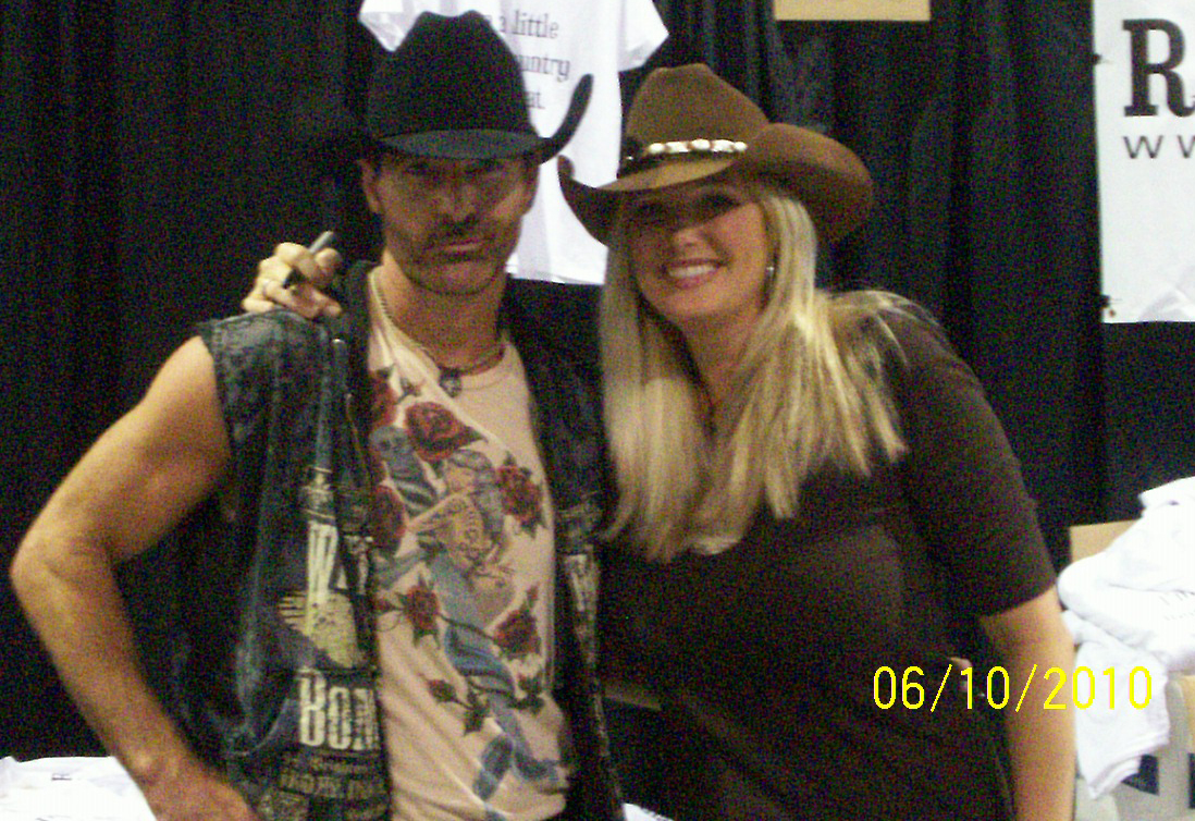 Burns & Poe